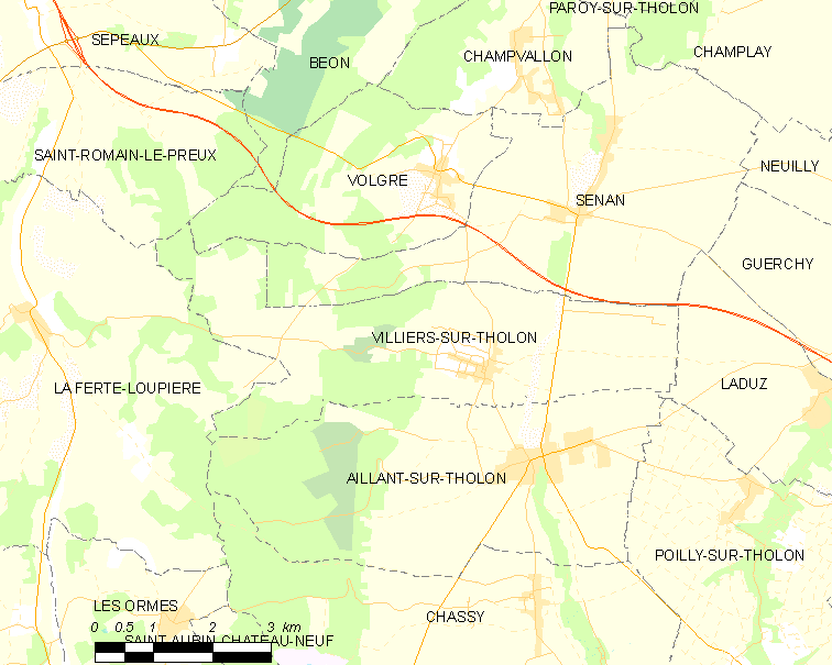 Map of French municipality Villiers-sur-Tholon